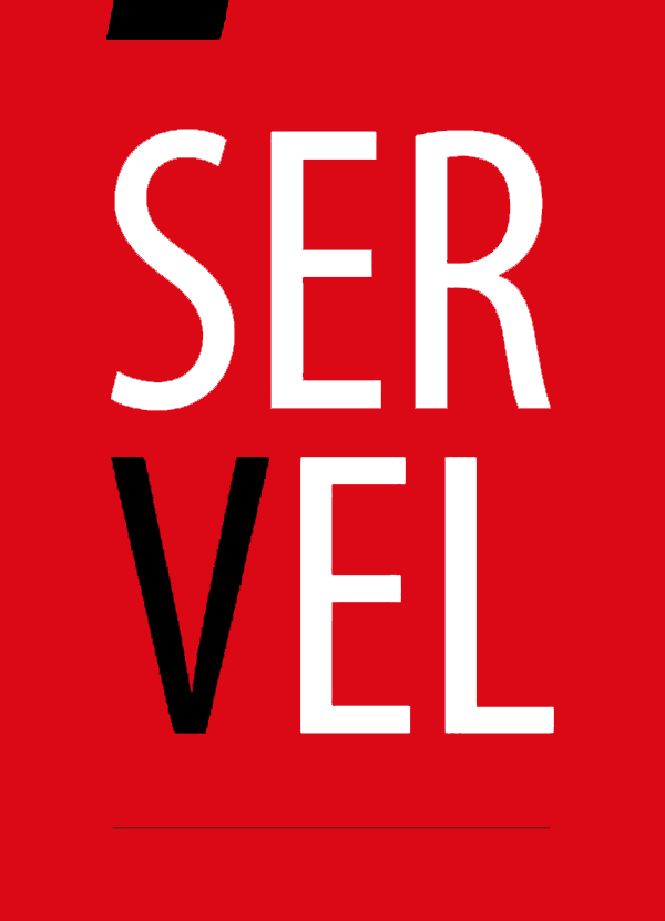 Servicio Electoral logo